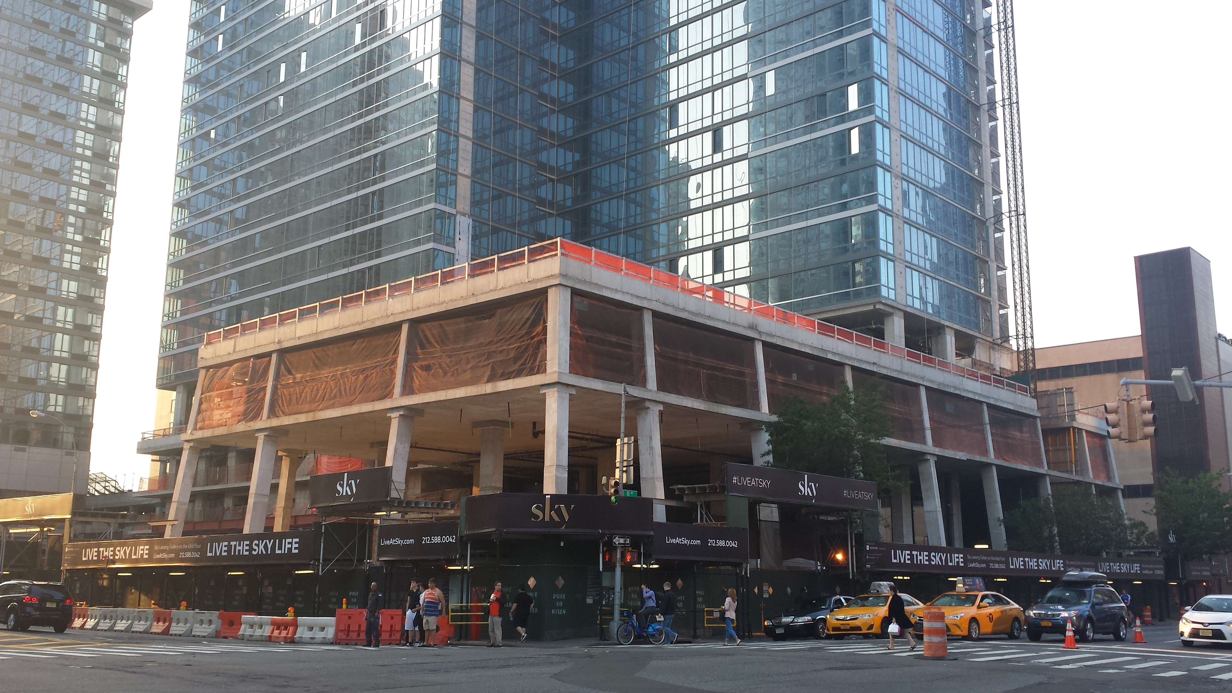 Sky at its base, under construction in June 2015.